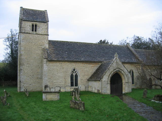 The church of St Andrew, Eastleach Turville, Gloucestershire, England.